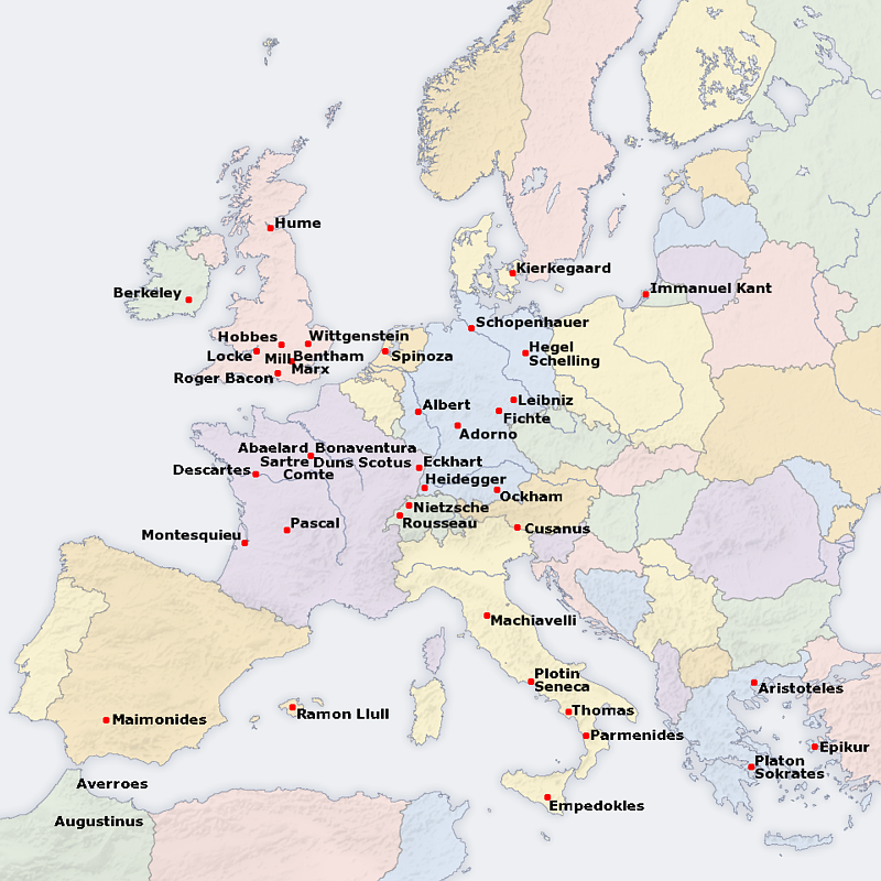 Where famous European philosophers lived